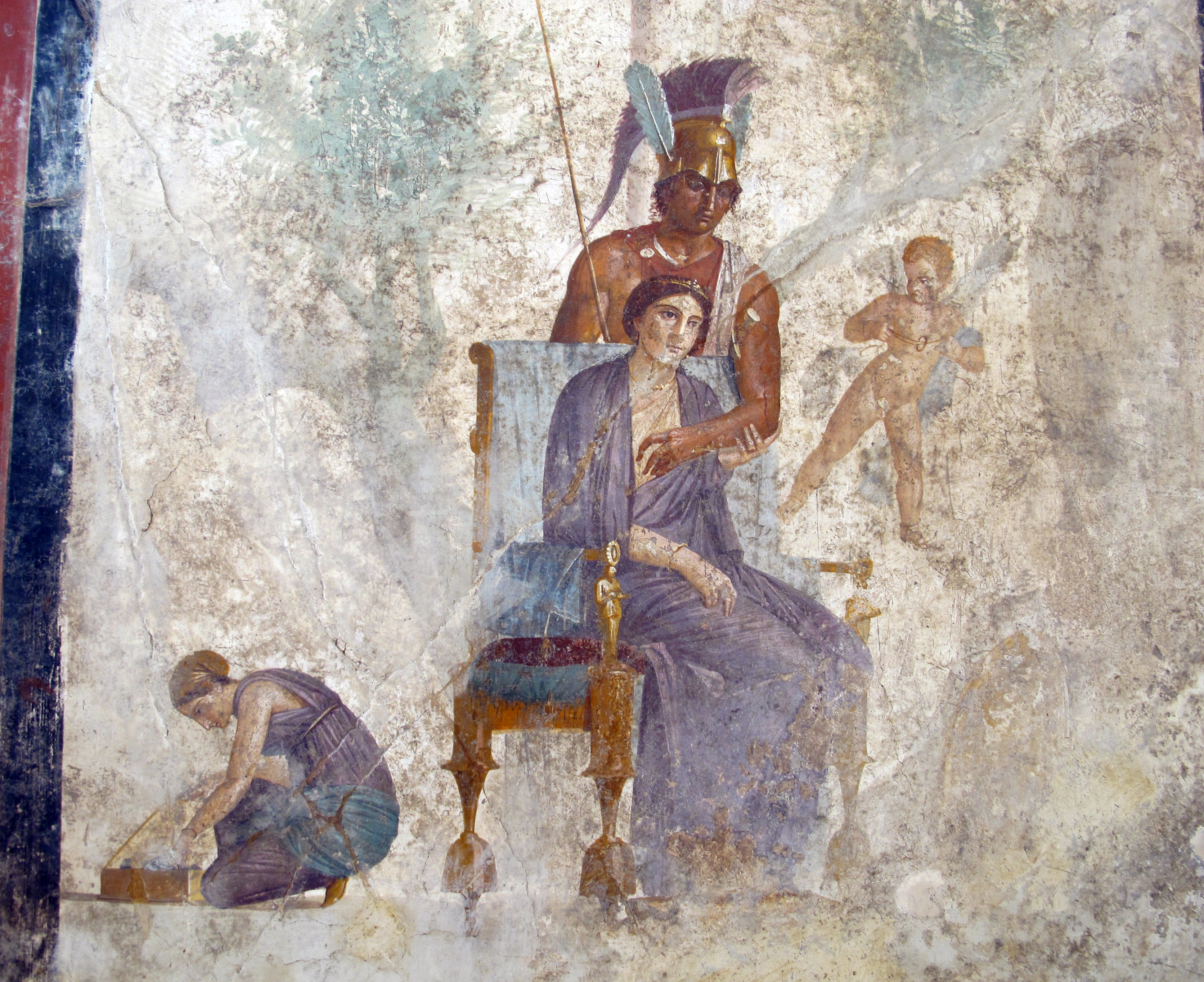 Ancient Roman fresco in the Museo Archeologico (Naples), showing the seduction of Venus by Mars in the presence of a handmaiden and a cupid, 1st century AD, from Pompeii.